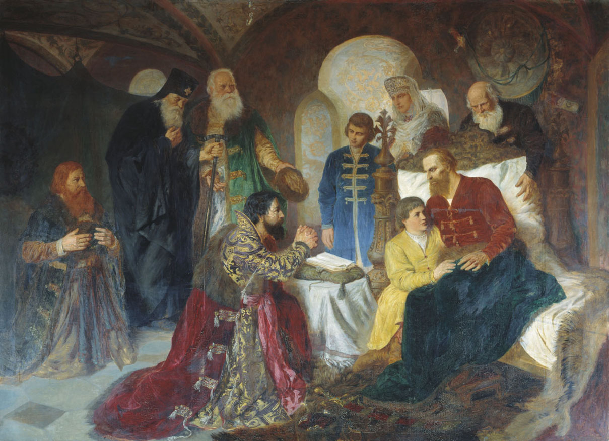 This is a picture by Polish painter Wilhelm Kotarbiński «Больной князь Дмитрий Пожарский принимает московских послов» (The ill Prince Dmitry Pozharsky admits Moscow ambassadors)